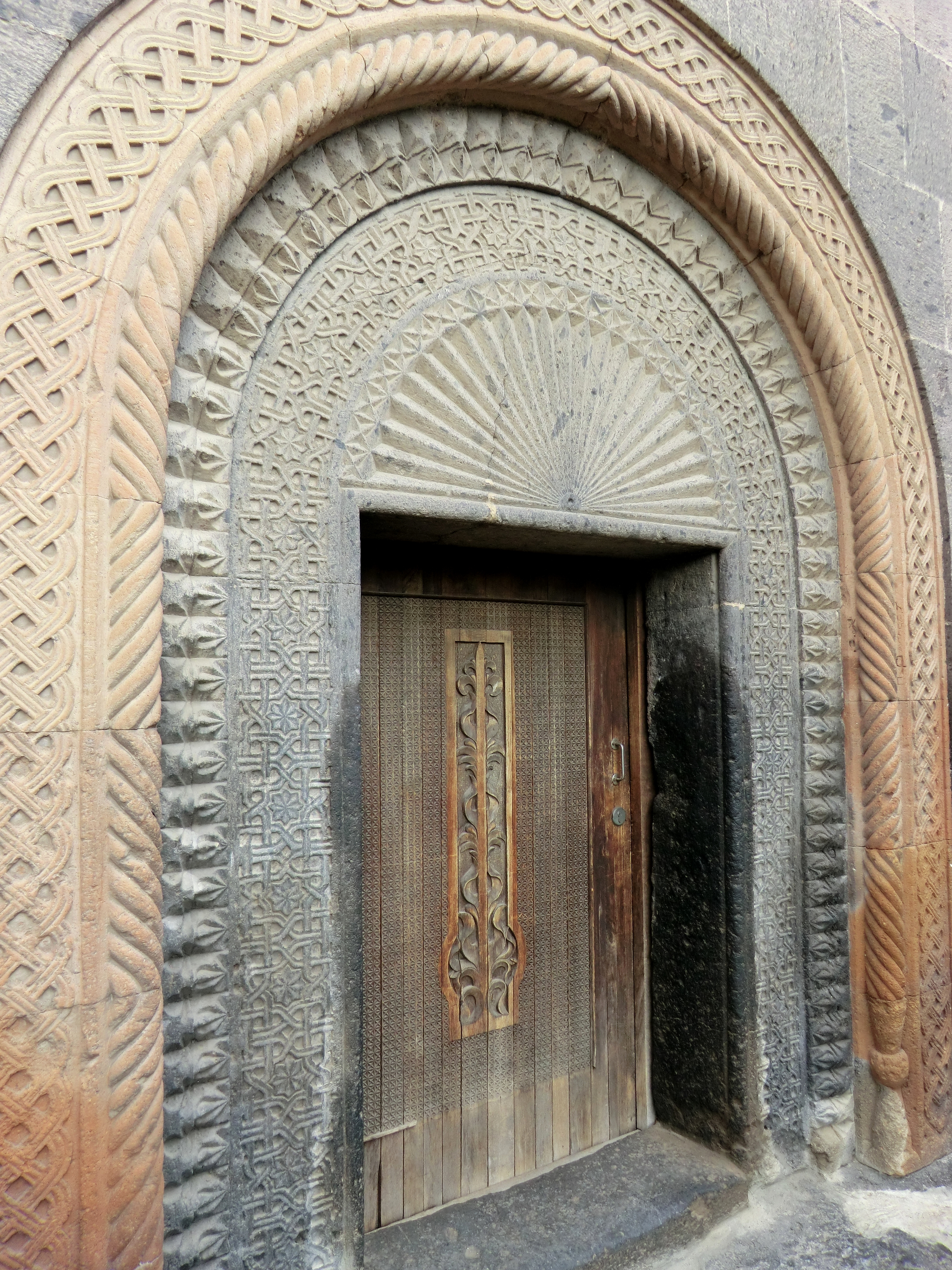 Saint Gevorg Monastery of Mughni.